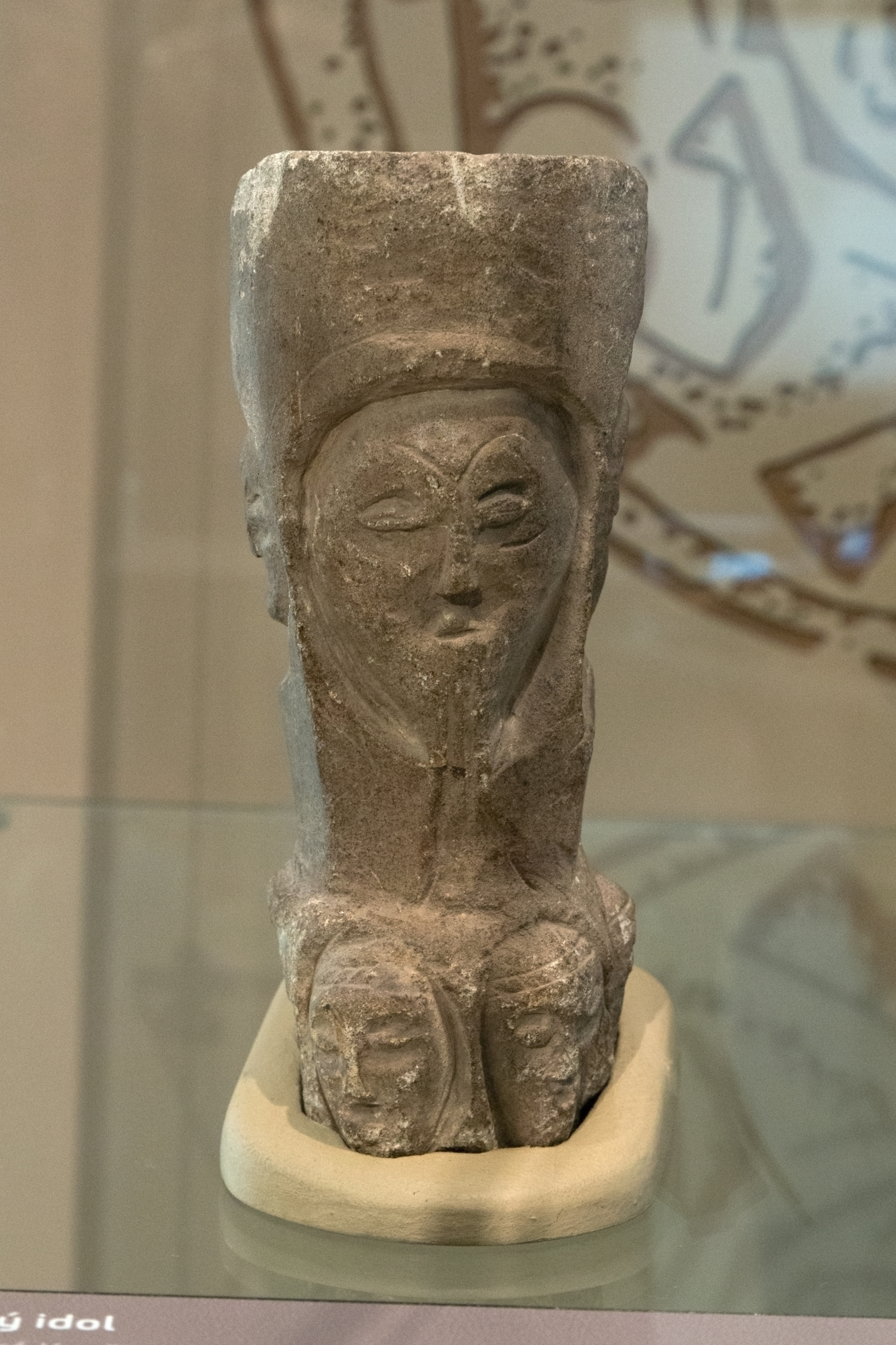 Kouřim (Kolín District) - Stará Kouřim, place Na Zámečnici, 9th century AD. Sandstone pillar with motifs of human faces. An incomplete pagan idol, originally perhaps from the position U Libuše, 9th century AD.